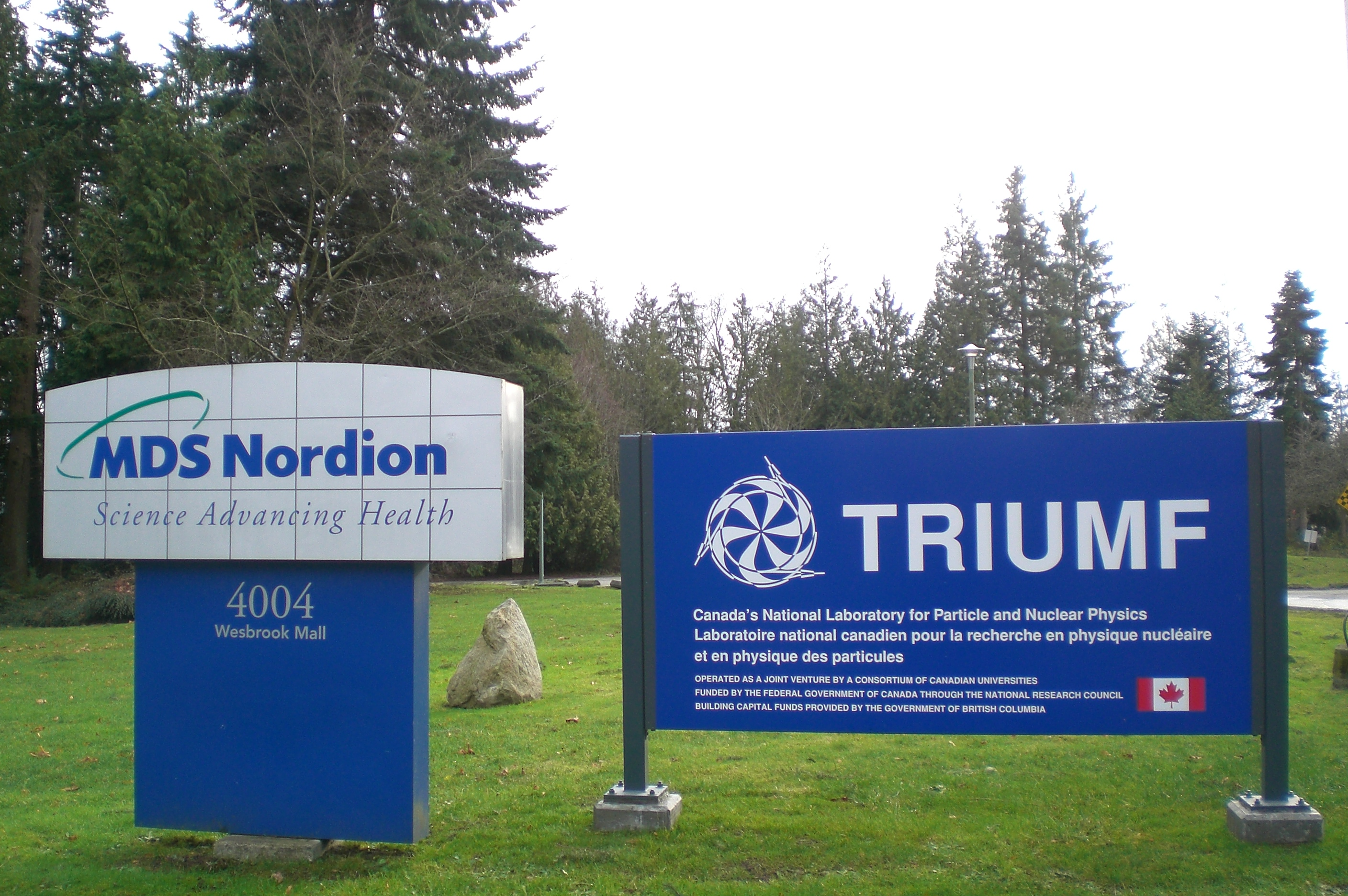 Author: Hossain Khan This picture is take by me.